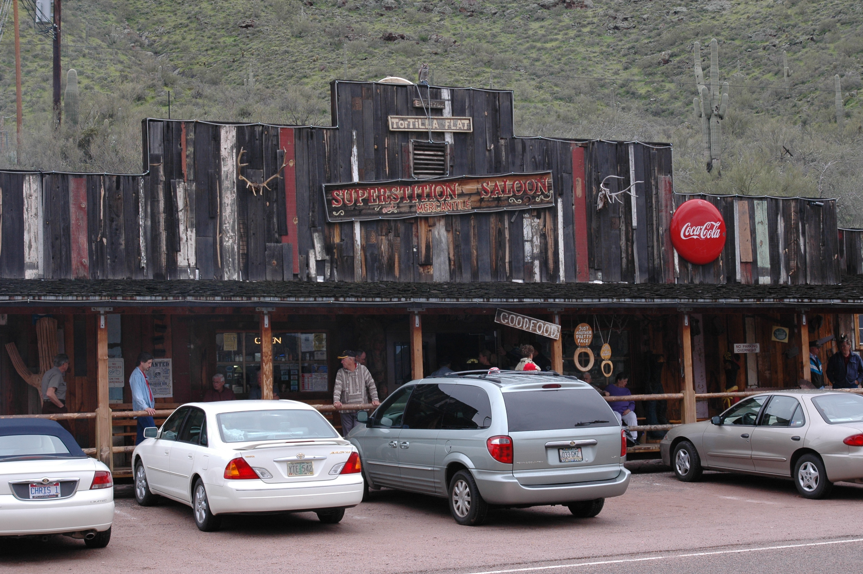 The Tortilla Flat Restaurant. Taken by Lakshmi Vyasarajan on March 5, 2005.